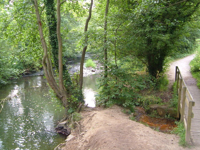 Afon Alun. The River Alyn in Alyn Waters Country Park / Parc Gwledig Dyfroedd Alun, close to Bradley Mill Bridge.